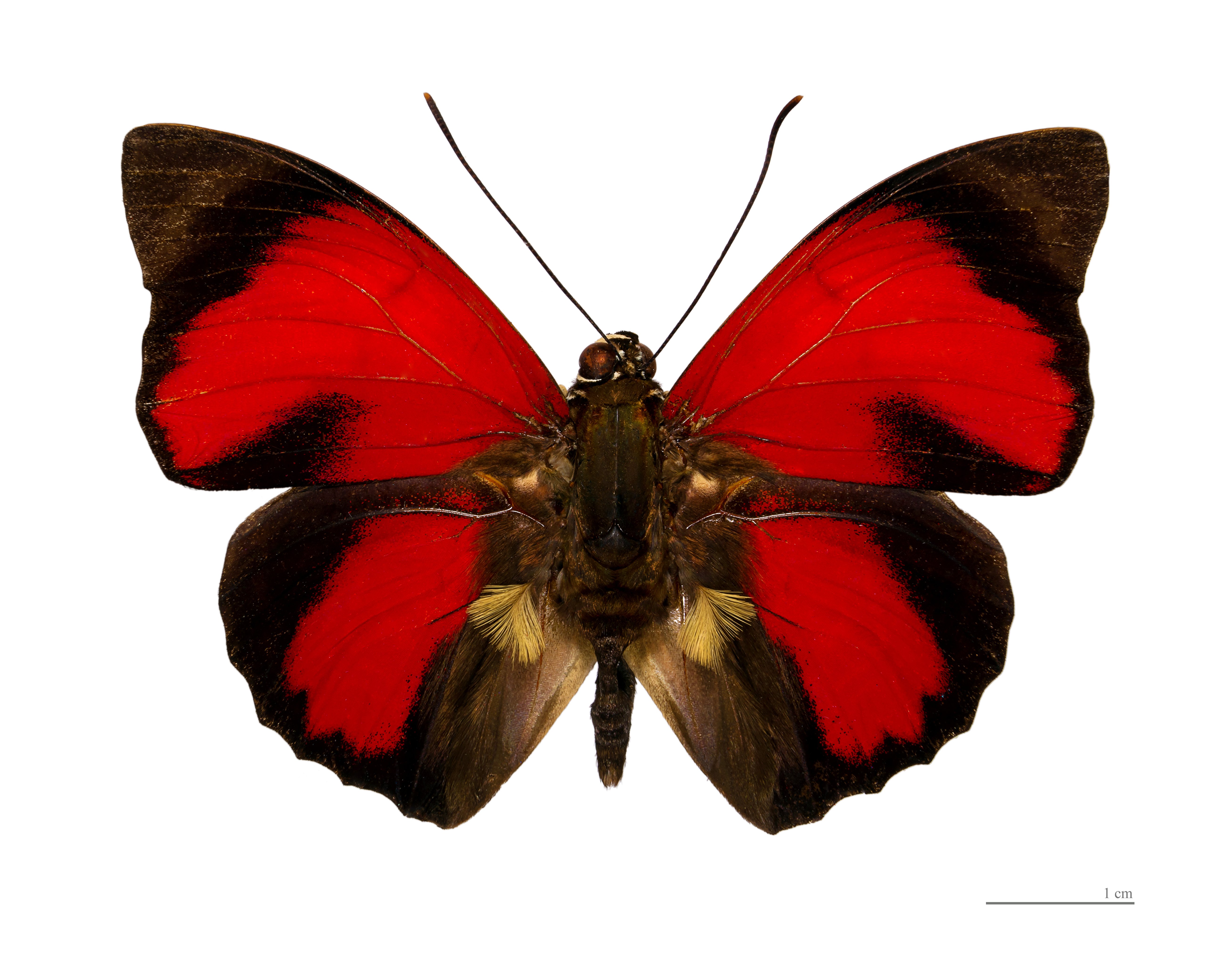 ♂ - Dorsal side Locality : Cacao, Crique Baguot, French Guiana.